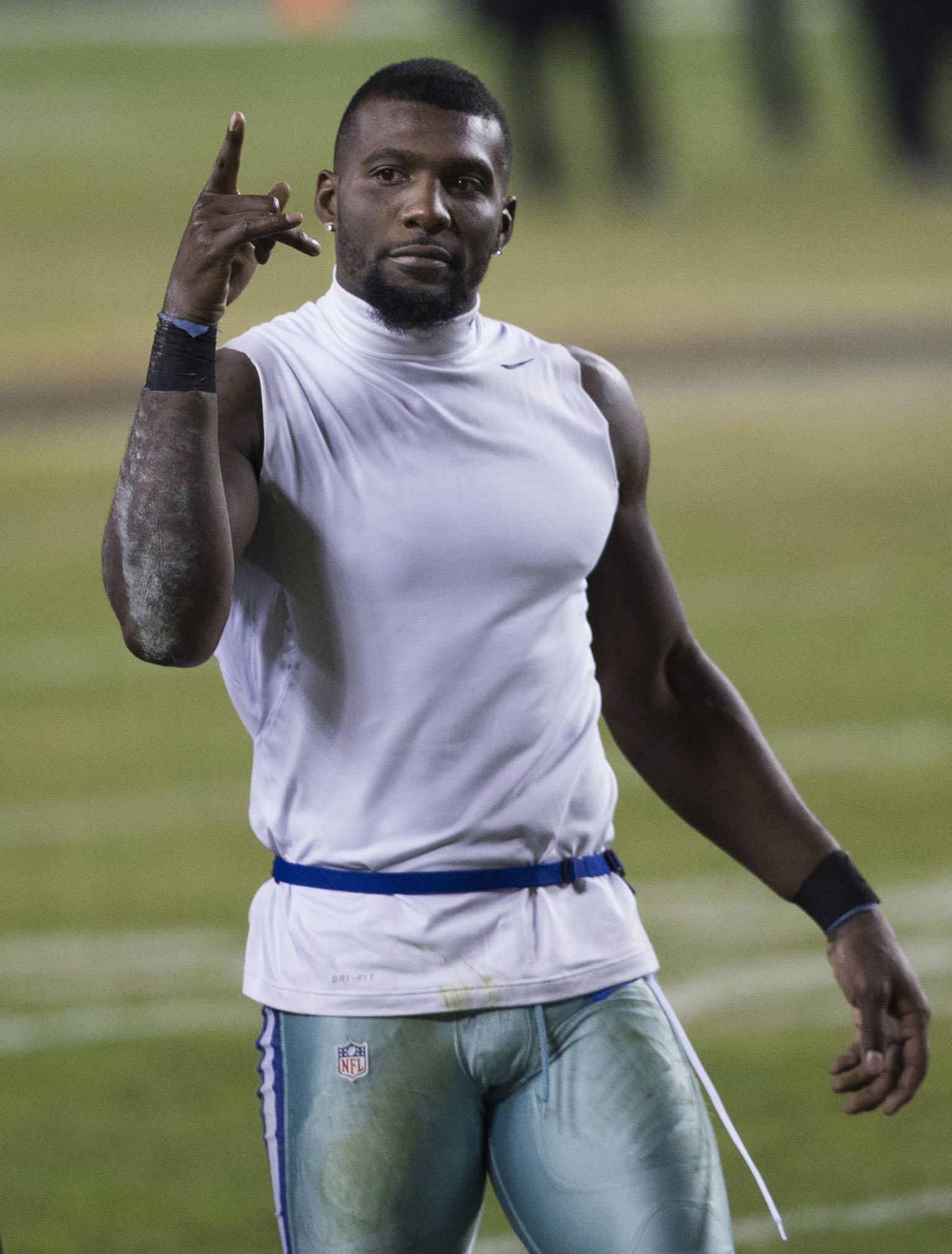 Cowboys at Redskins 12/7/15